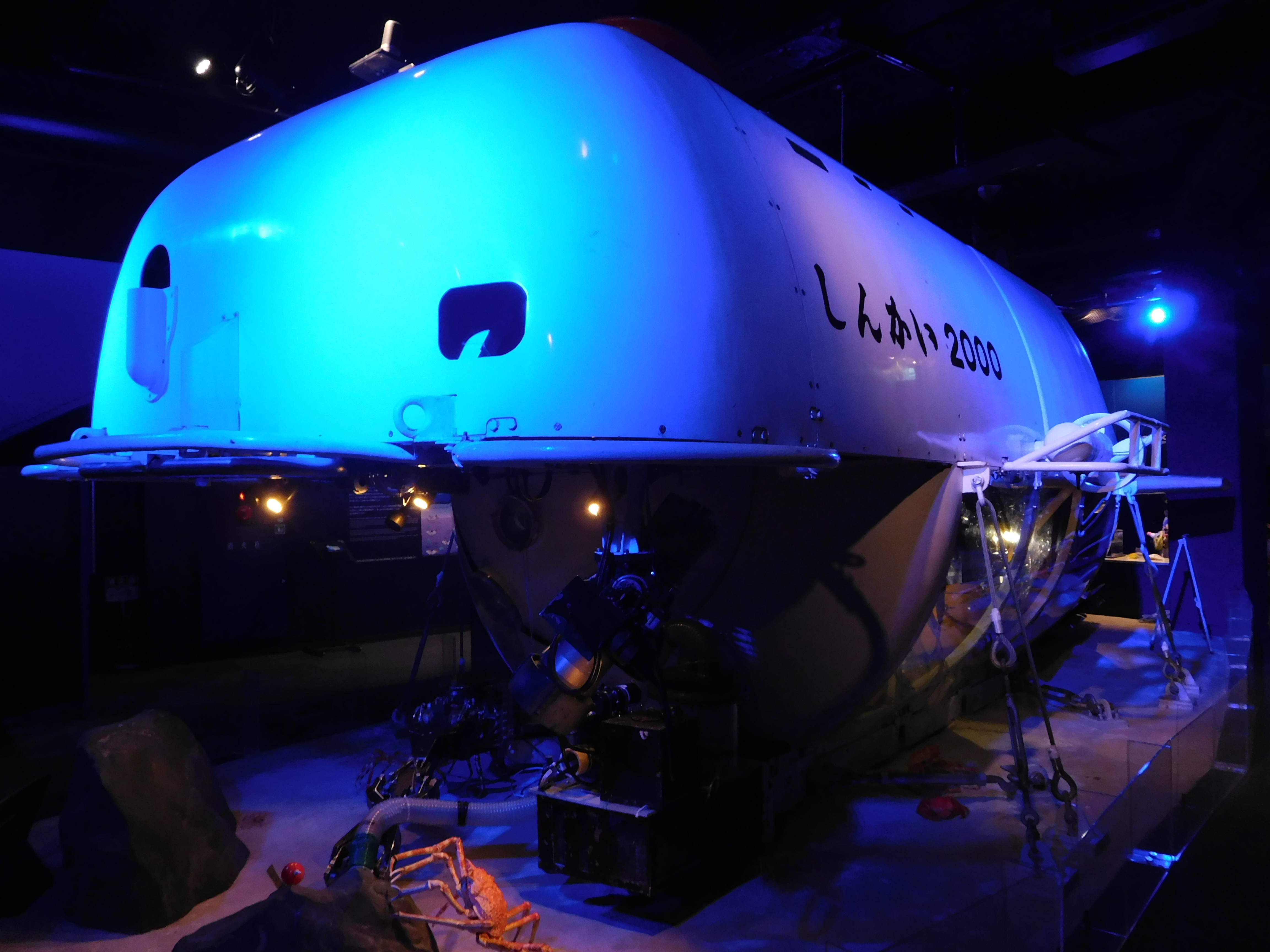 Shinkai 2000 is exhibited at Enoshima Aquarium, Kanagawa, Japan.